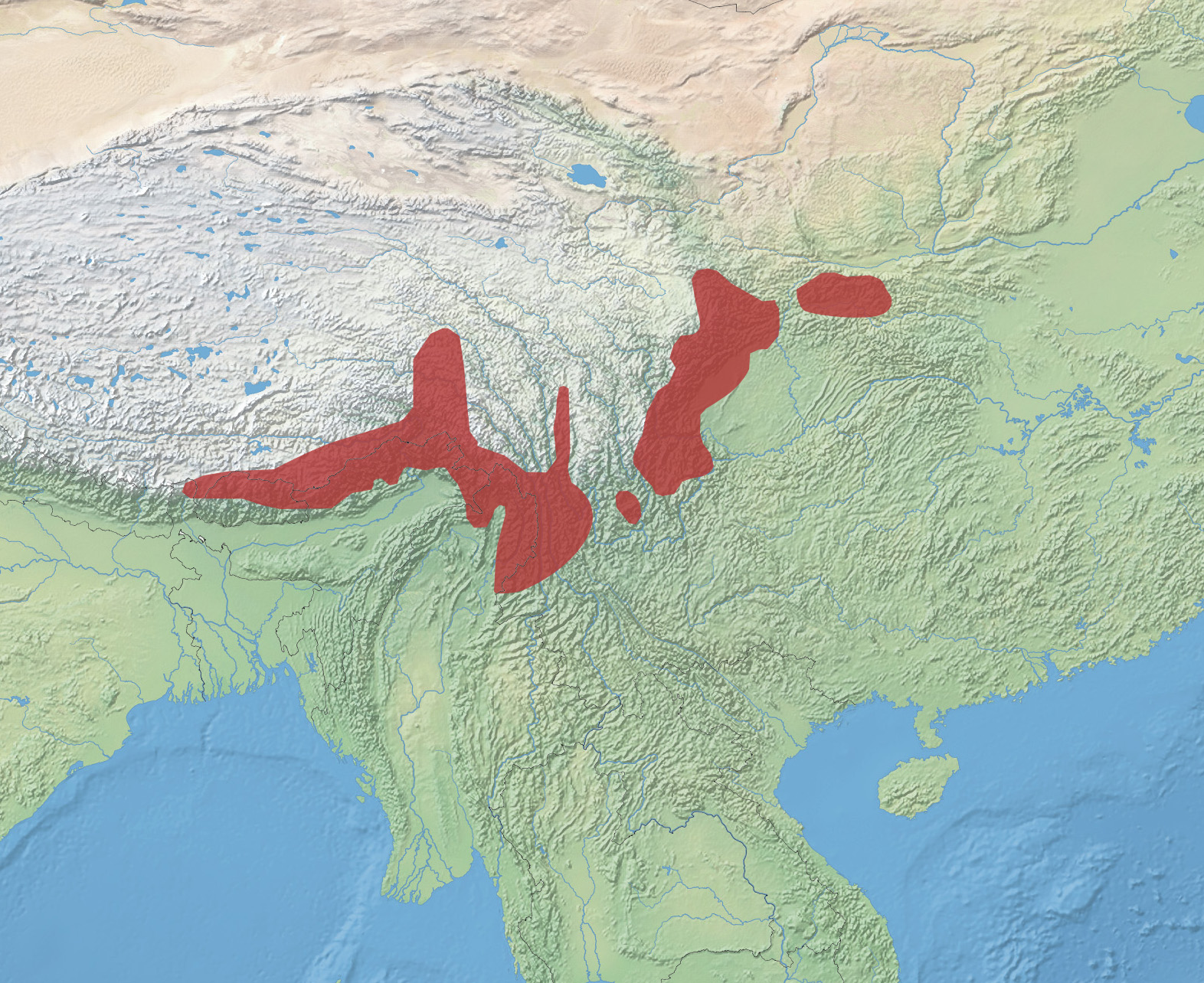 The distribution map of the Takin Budorcas taxicolor